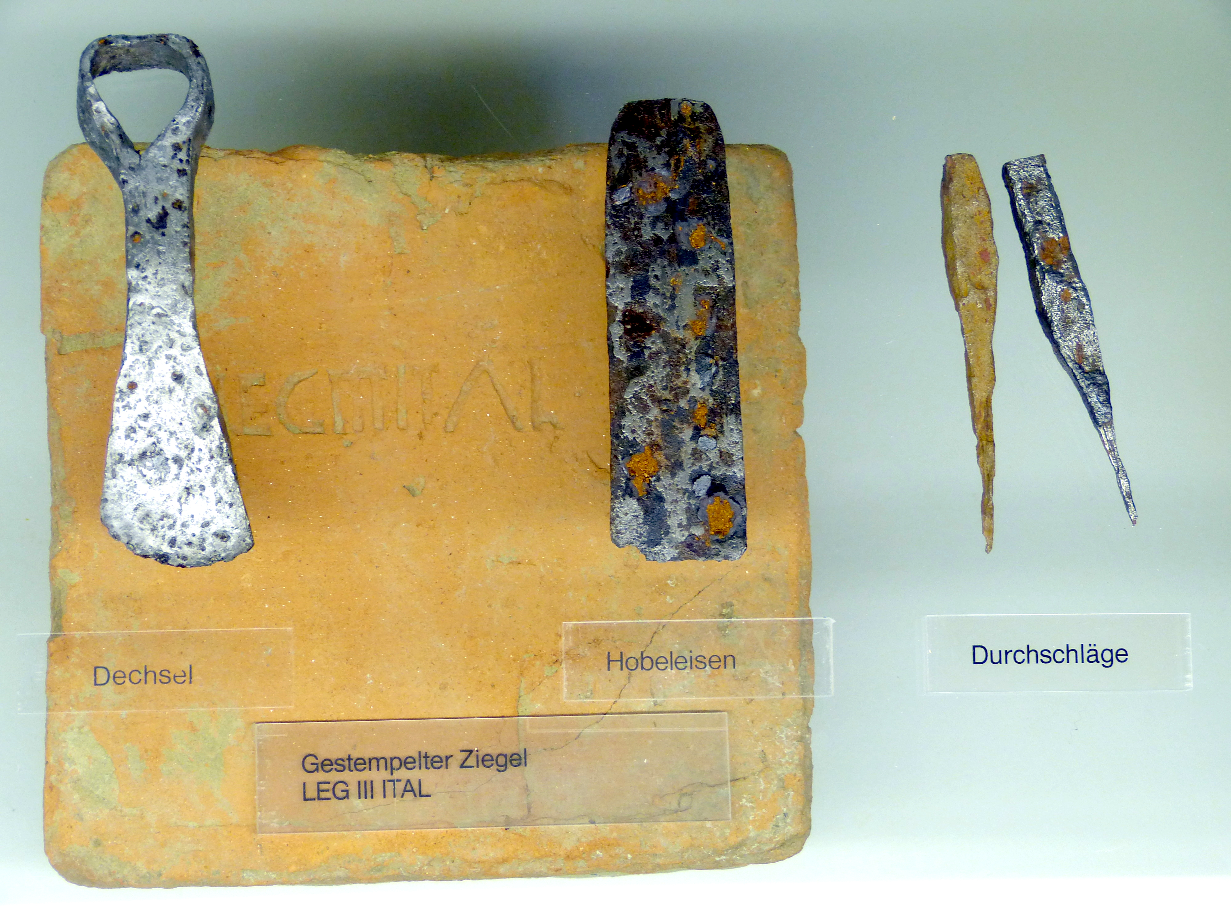 Kelheim ( Lower Bavaria ). Archaeological Museum: Tools and brick stamp of Legio III Italica from the the settlement ( vicus ) of the ancient Roman castle in Eining ( Abusina ).